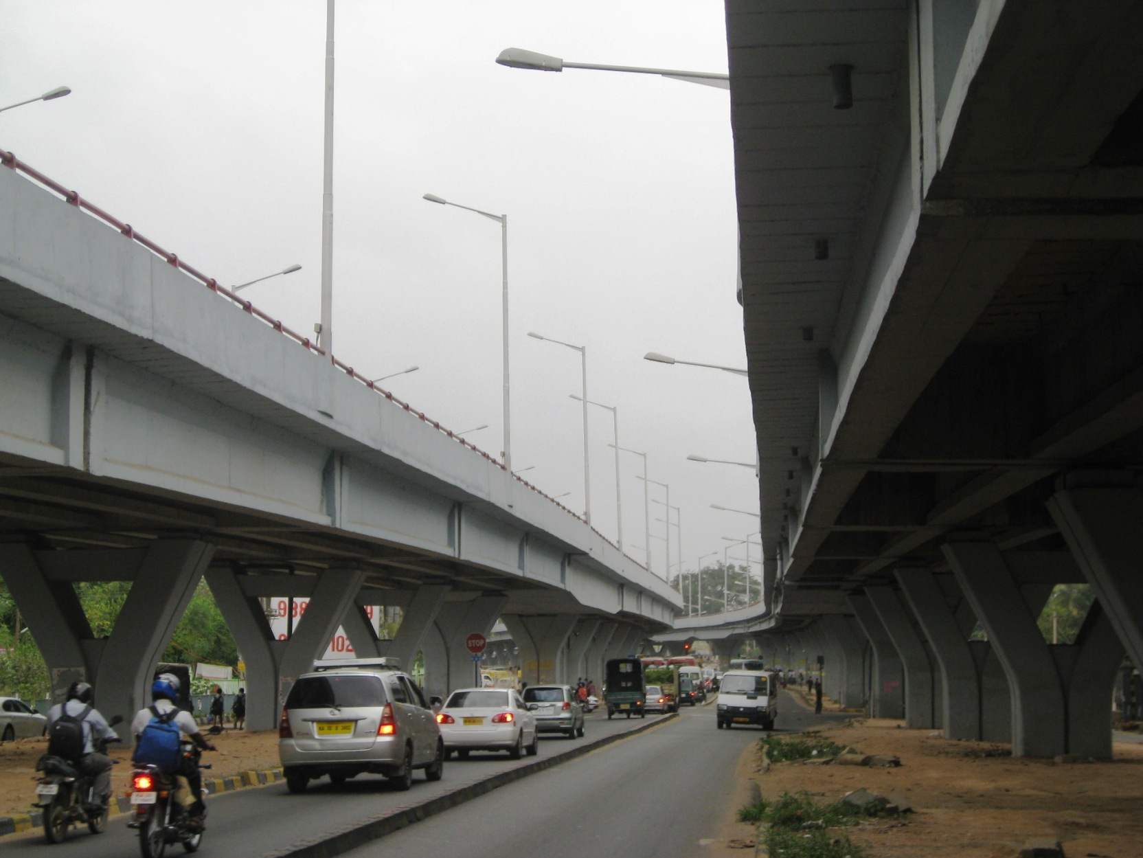 Bus Rapid Transit Lanes under the flyover at the junction of Sarjapur Road and Outer Ring Road at Agara. This media file is uploaded with India loves Wikipedia event.